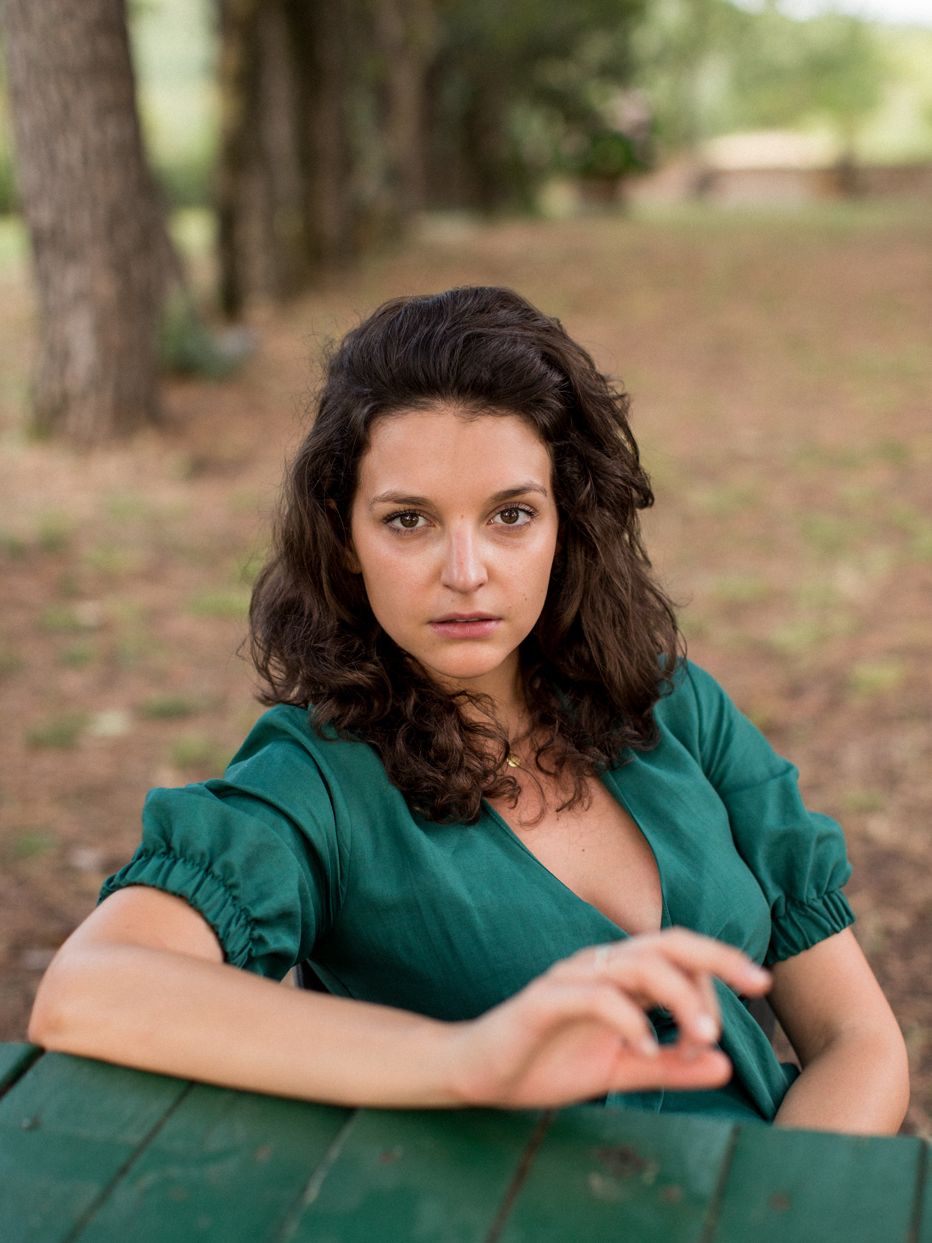 Maria Dębska - Polish actress